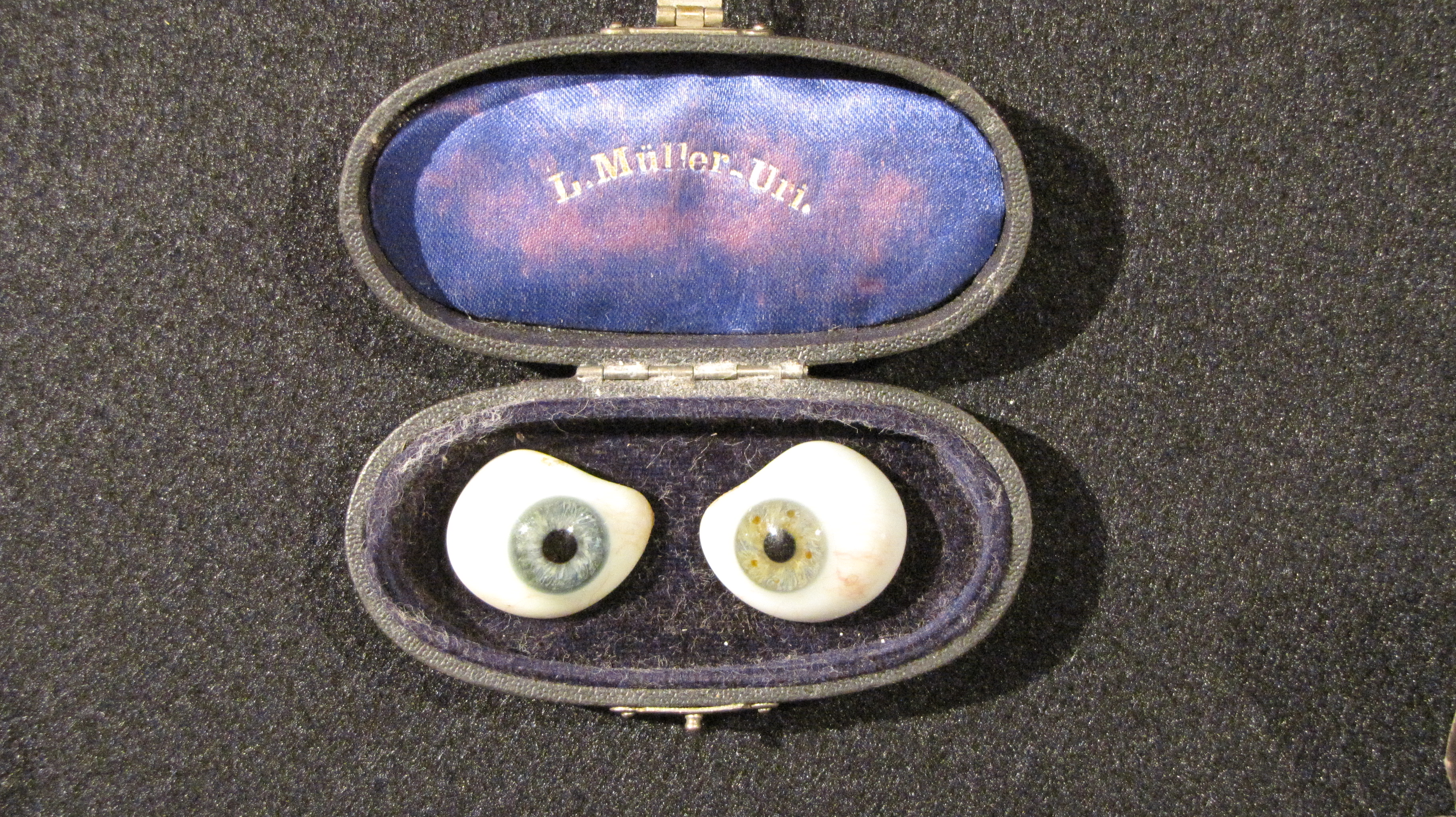 Glass eyes made by Ludwig Müller-Uri, picture taken in an exhibition in the Neues Museum, Berlin